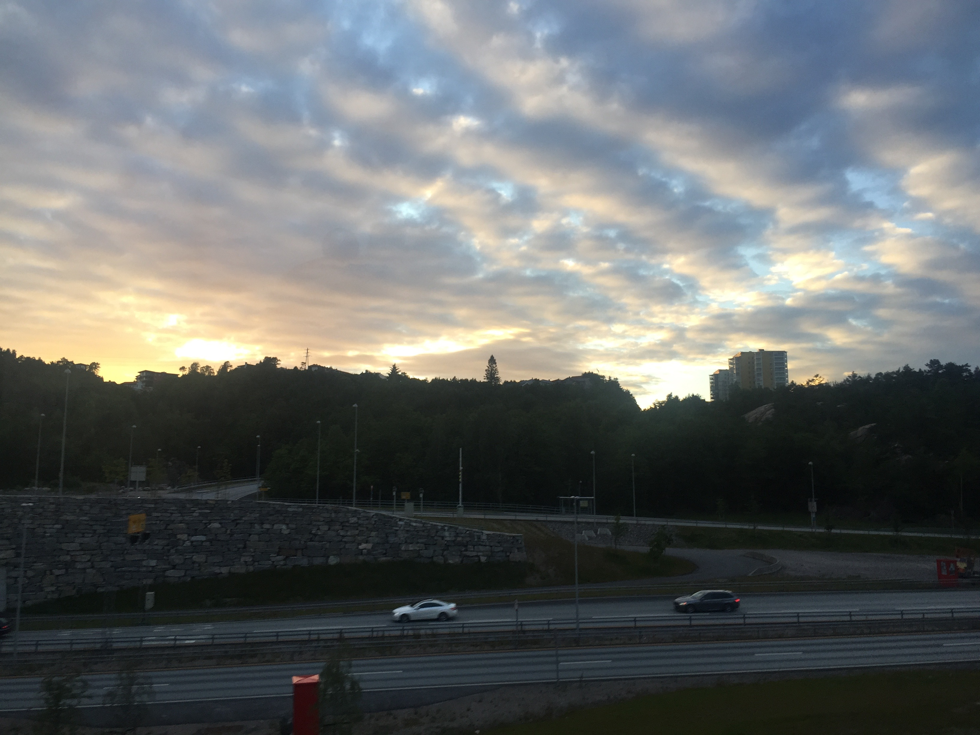 Hannevika